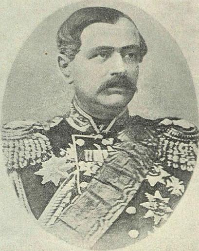 Glazenap ba